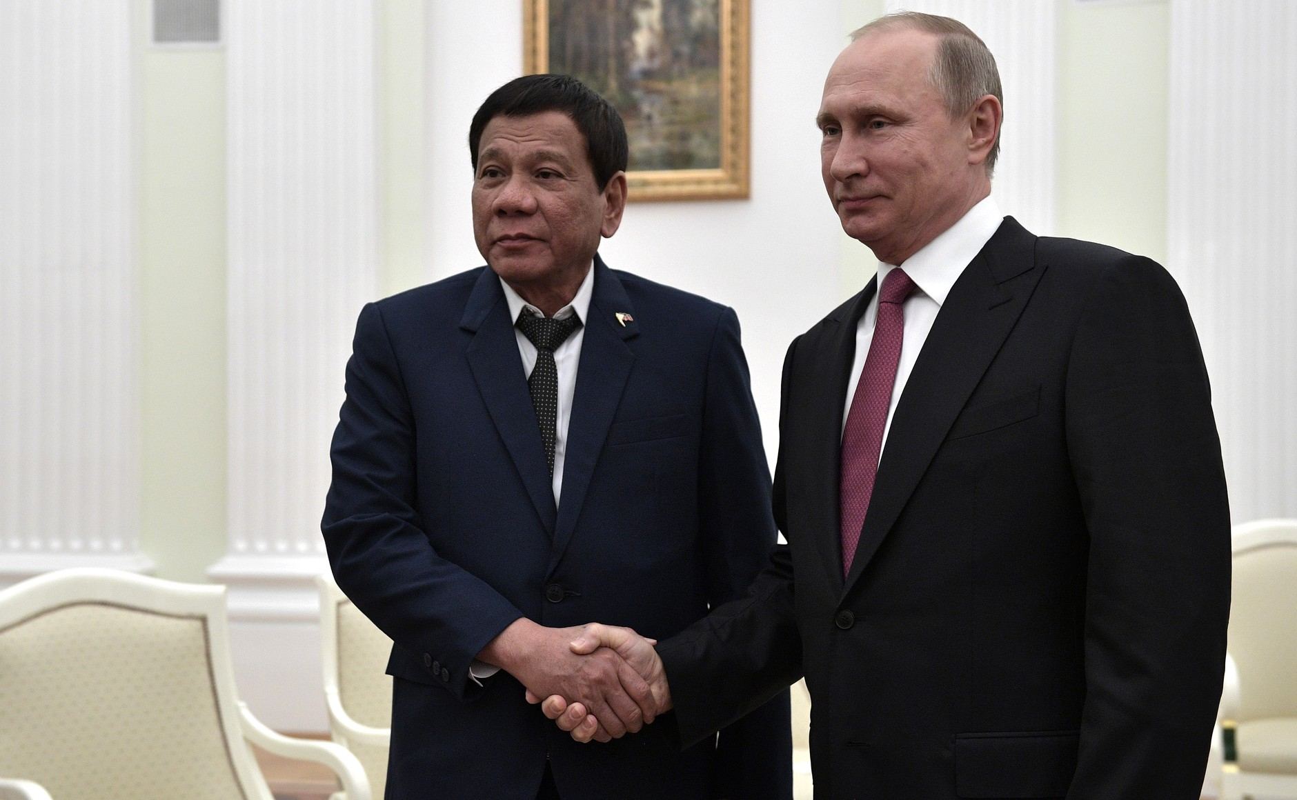 Meeting of Vladimir Putin with the President of the Philippines Rodrigo Duterte